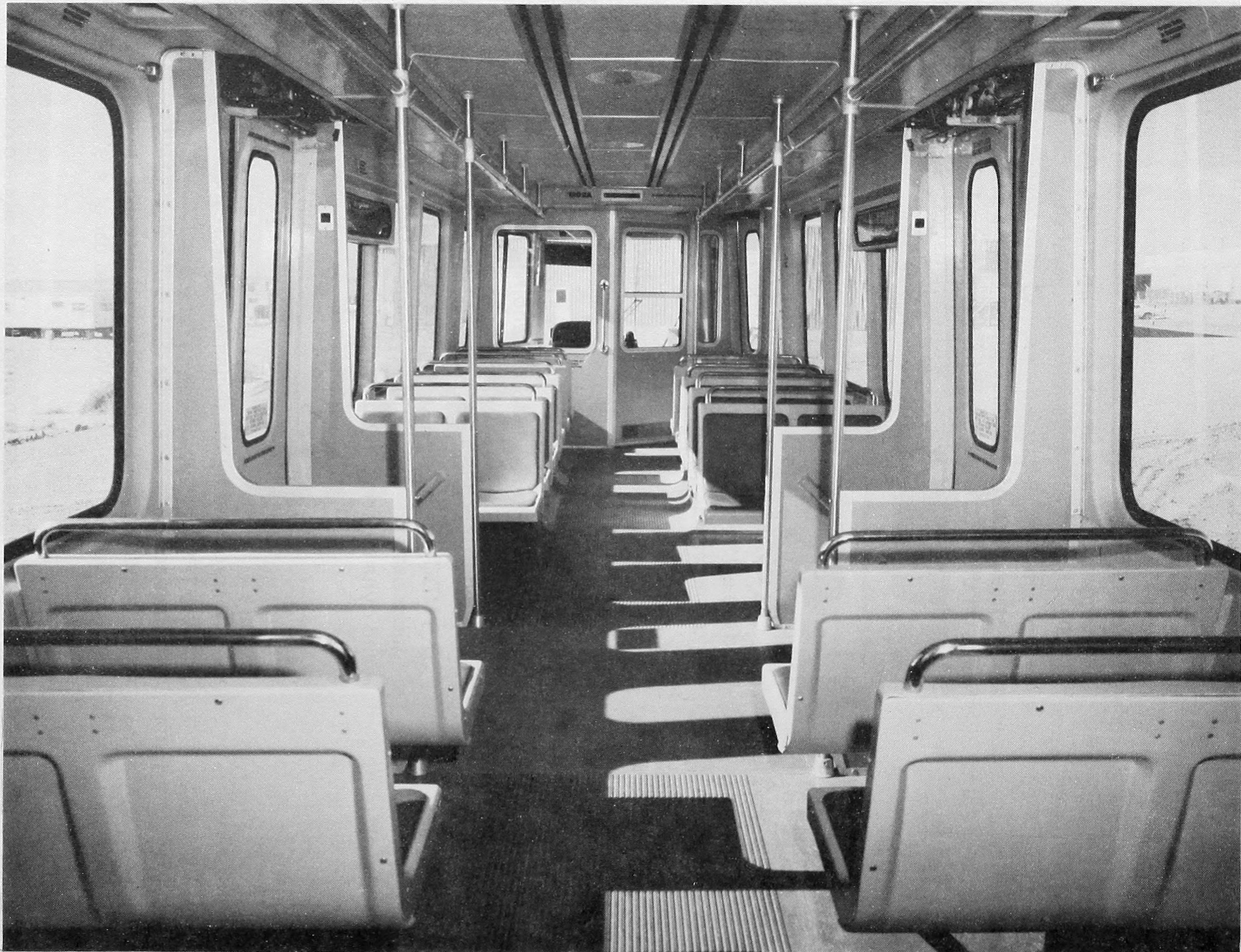 Original caption: "Figure 1-2: View of Passenger Area - SFMR Car"